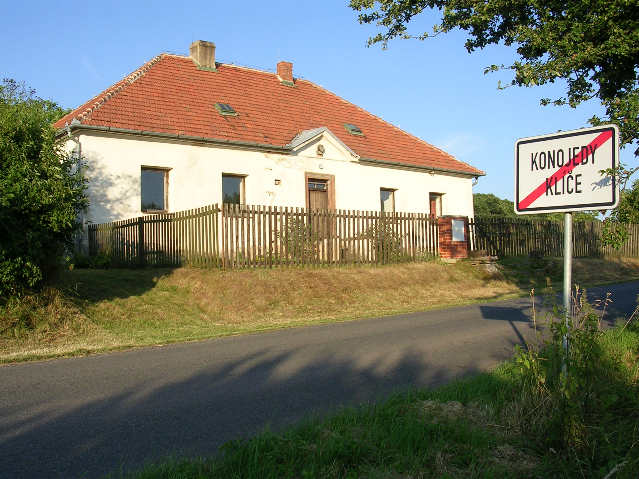 Oplany and Konojedy, Central Bohemian Region, the Czech Republic.